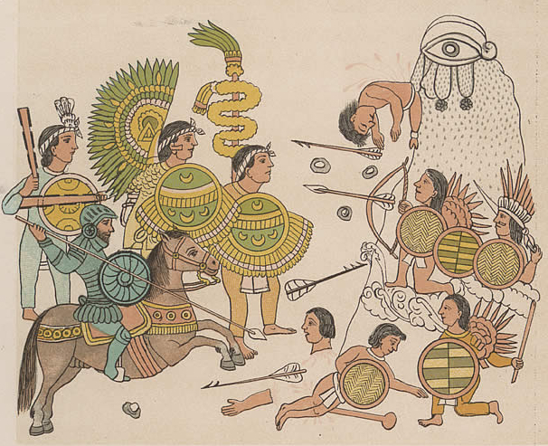 Entrance into Guadalajara, Jalisco. The Tlaxcalans are carrying their traditional obsidian-tipped war clubs. Tlaxcalan forces accompanied the Spaniards on post-conquest explorations of northern Mexico. Shown here is a scene from the 1522 exploration led by Cristóbal de Olid, one of Cortés' most trusted lieutenants.